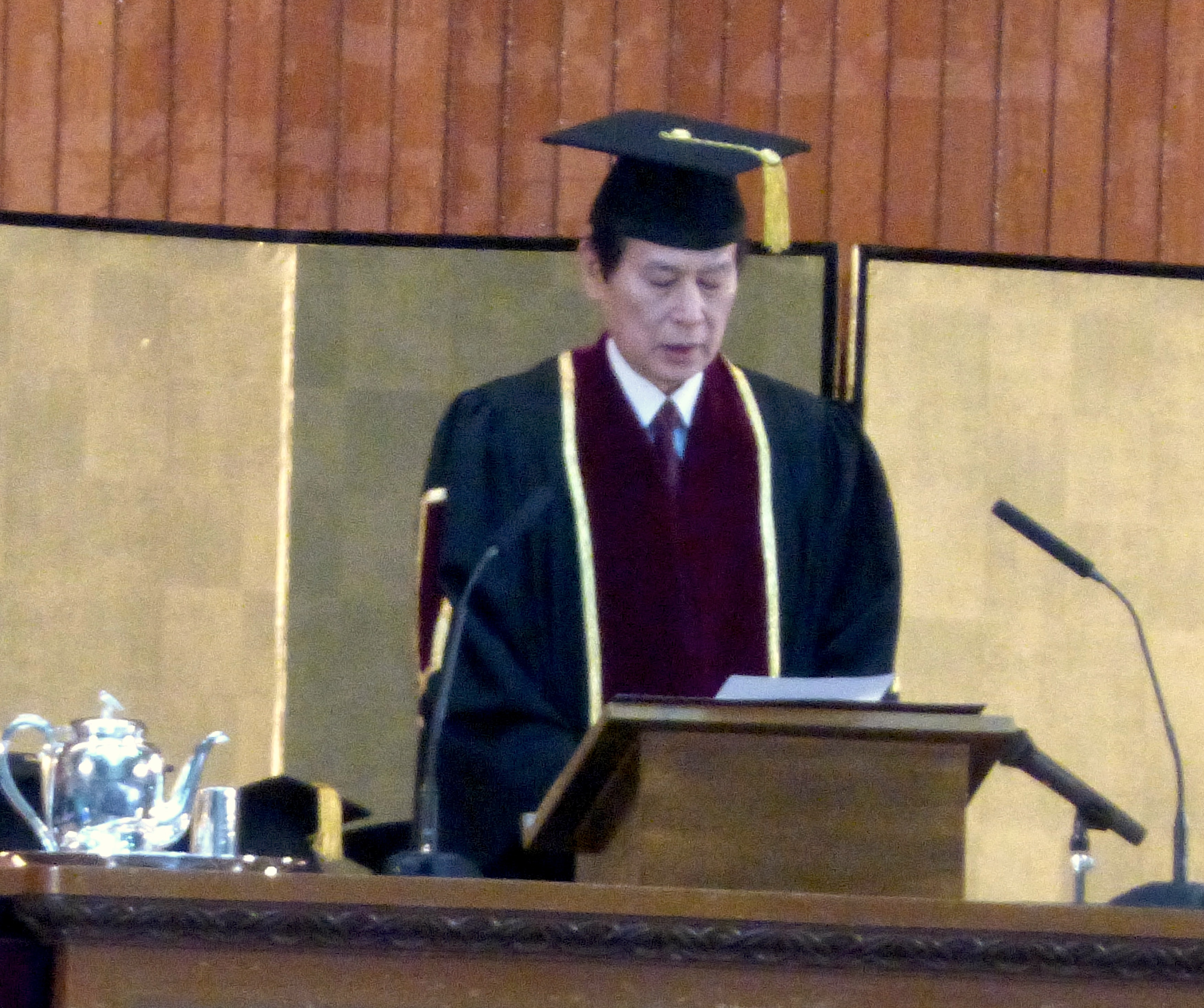 Kaoru Kamata (University President) - at the graduation ceremony